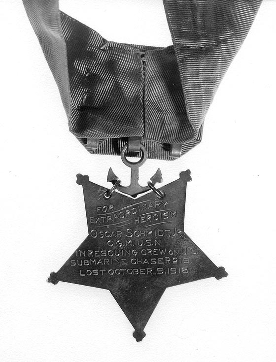 Reverse of a Medal of Honor awarded to Chief Gunner's Mate Oscar Schmidt Jr., United States Navy, for "extraordinary heroism" in rescuing crewmen of USS SC-219, which burned and sank at sea on 9 October 1918. The text reads: FOR EXTRAORDINARY HEROISM OSCAR SCHMIDT, JR. C.G.M. U.S.N. IN RESCUING CREW ON U.S. SUBMARINE CHASER 219 LOST OCTOBER 9, 1918.